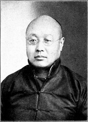 Liang Dengying